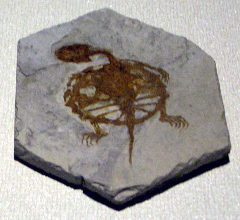 Manchurochelys liaoxiensis fossil displayed in Hong Kong Science Museum